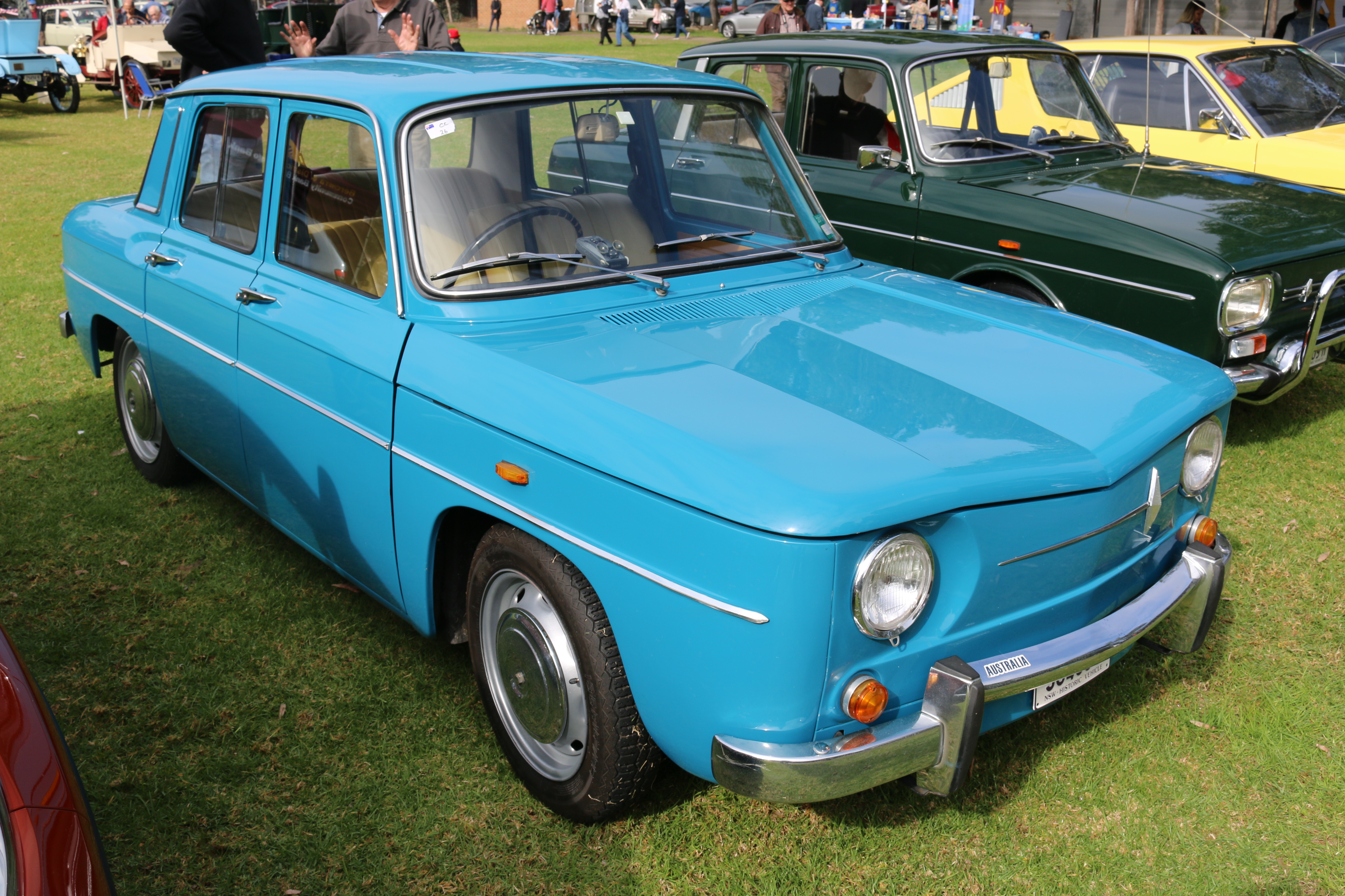 All French Day, Silverwater Park, NSW July 2016